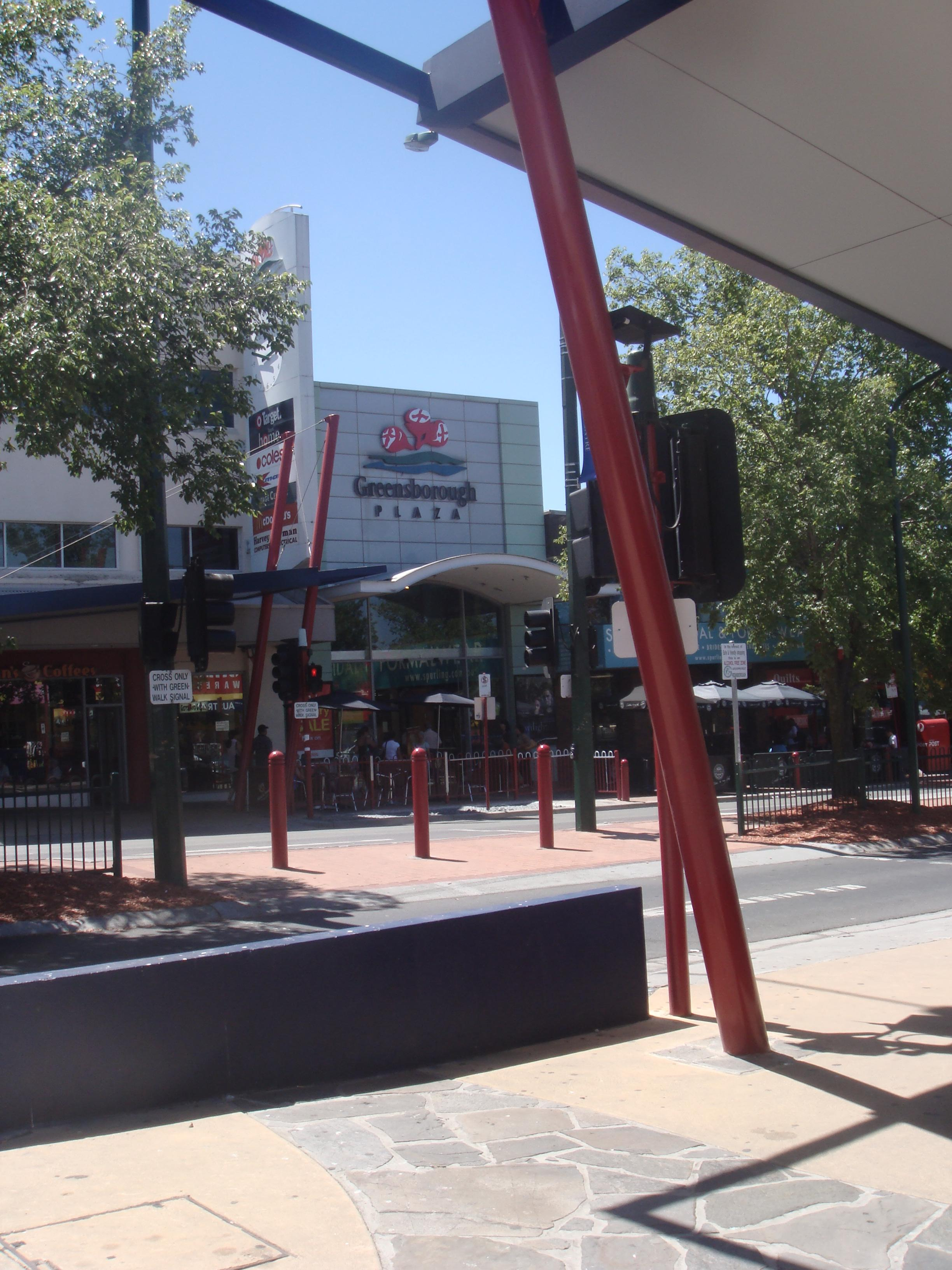 Greensborough Plaza from the main commercial street at Greensborough, Victoria, Australia.